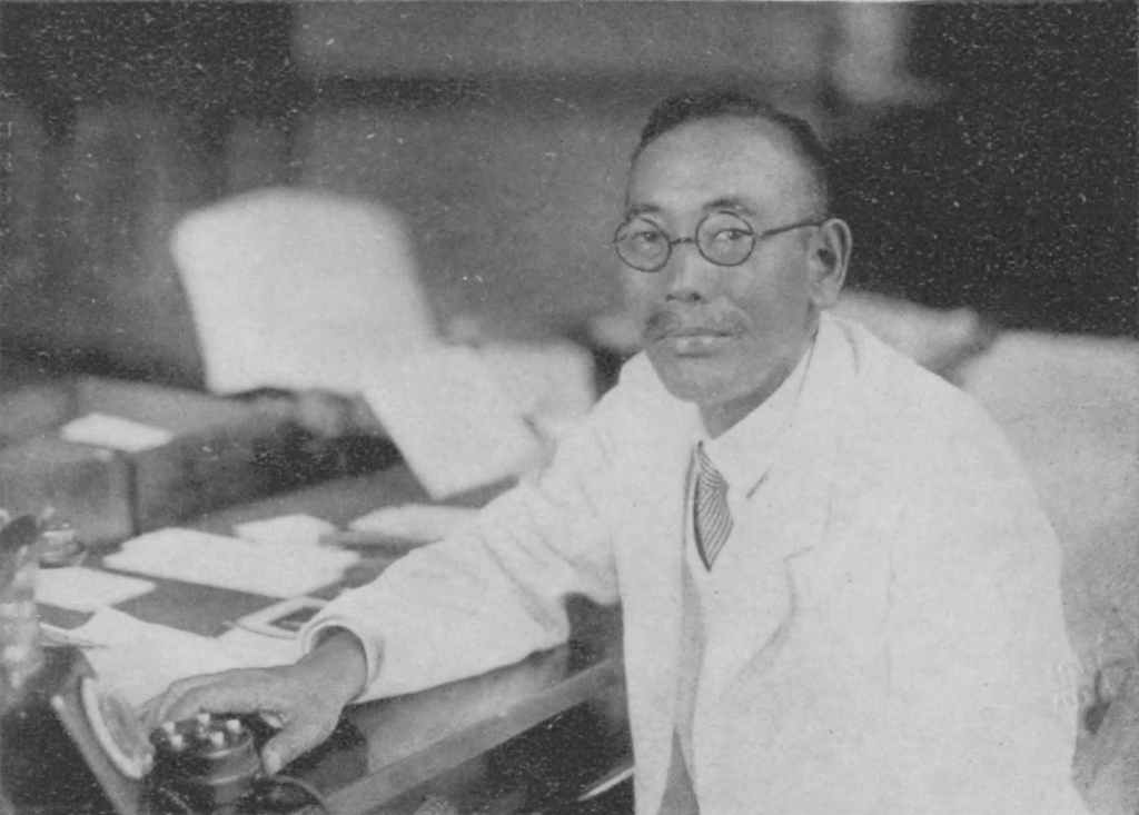 Portrait of Nagata Hidejiro (永田秀次郎, 1876 – 1943)